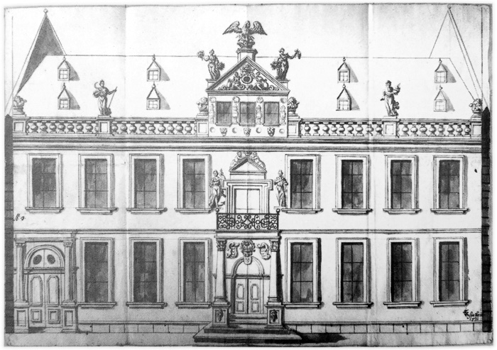 Frankfurt on the Main: Facade of the Palais Barckhaus at the Zeil